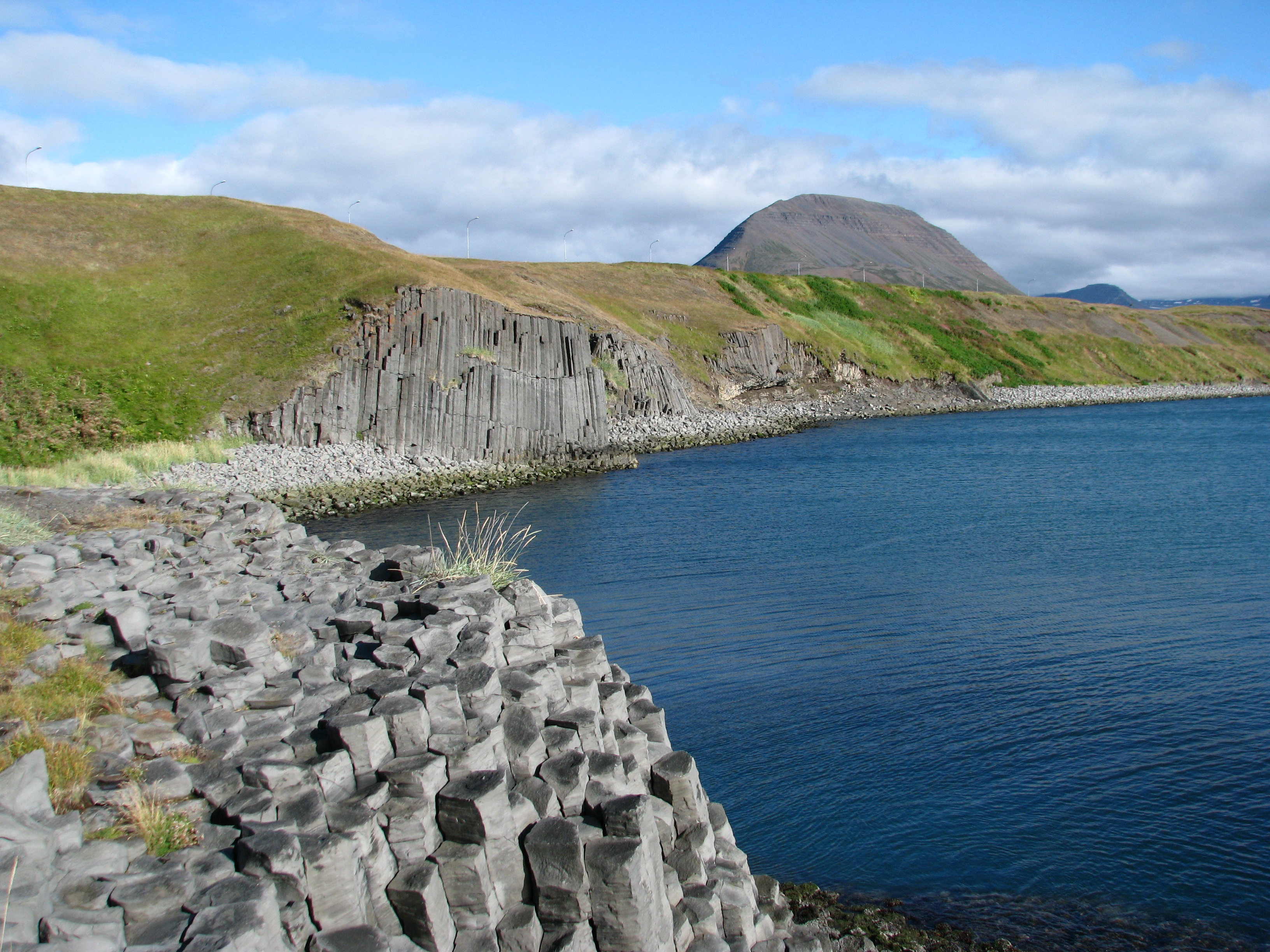 Columnar basalt on the shore of Hofsós, a town on Iceland.